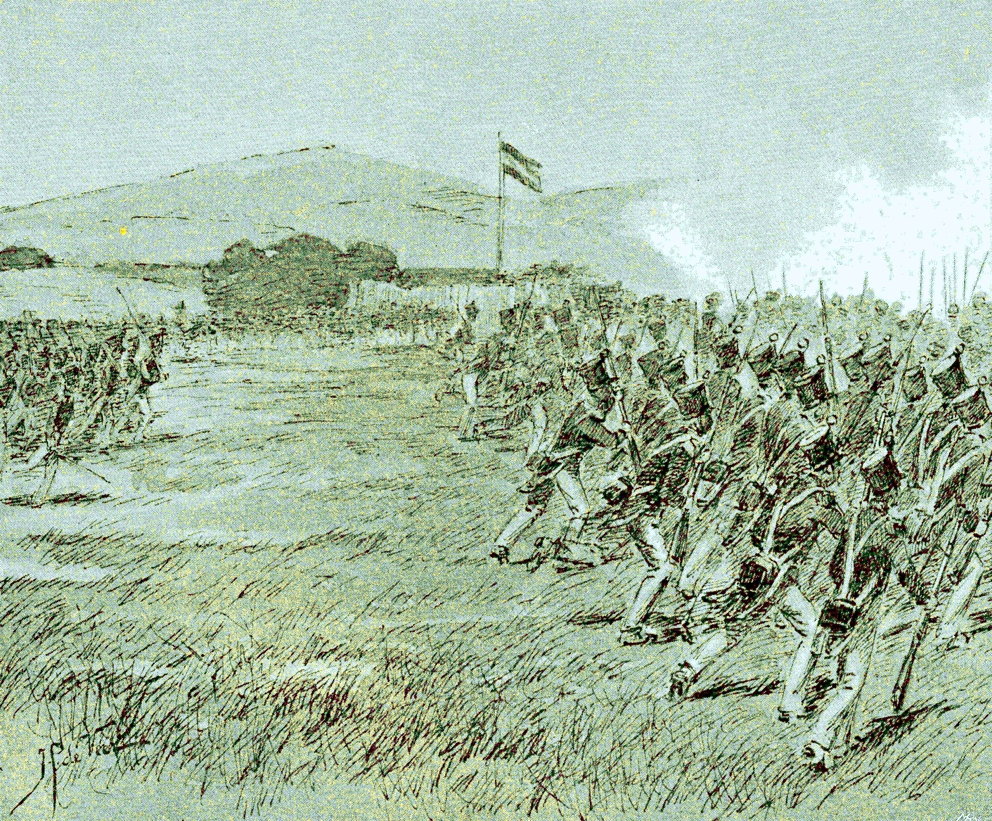 Gevecht bij Ploentaran